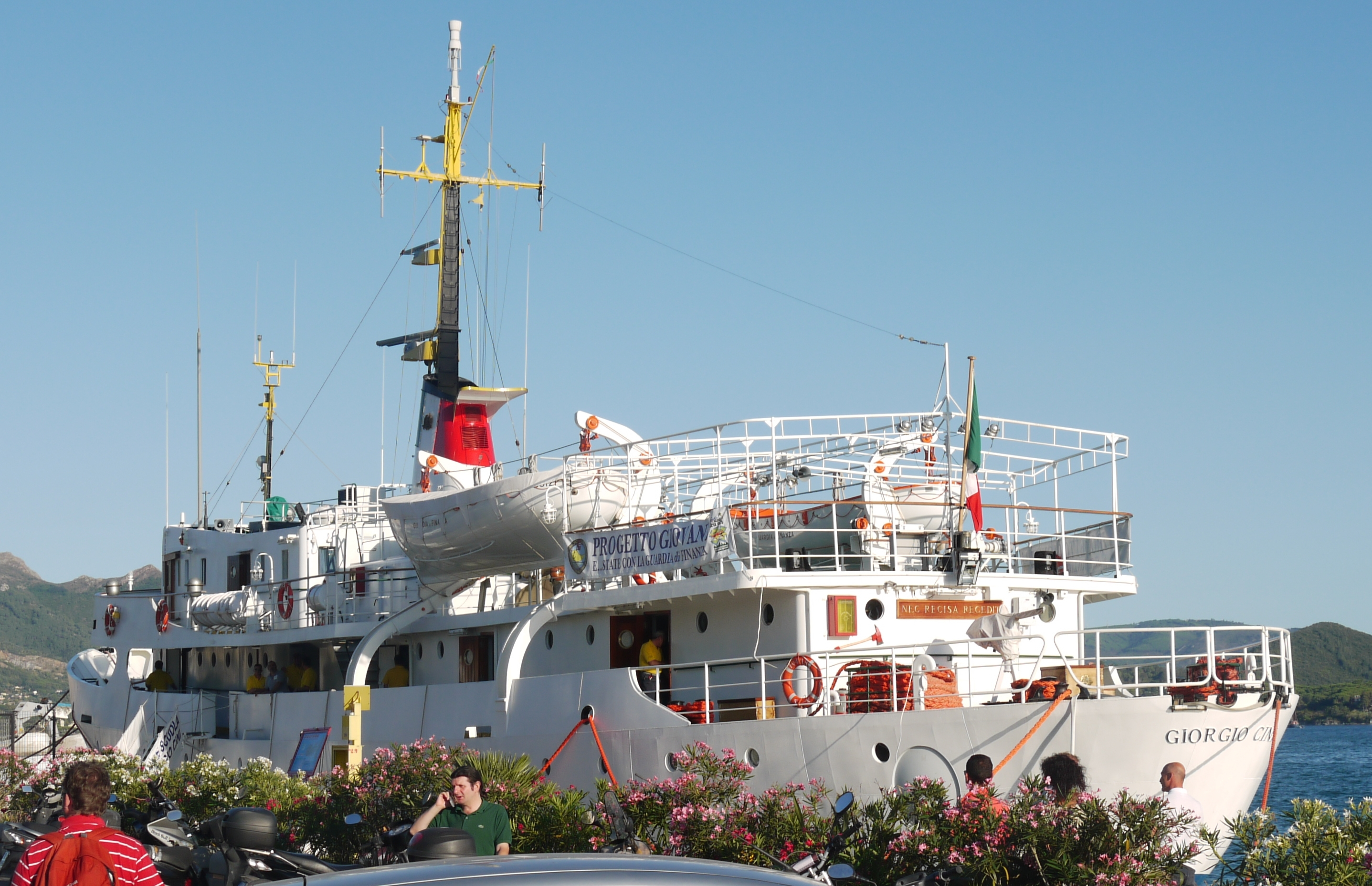 italian training ship "Giorgio Cini" of the Guardia di Finanza (GdF) at Portoferraio harbor, Elba, Italy